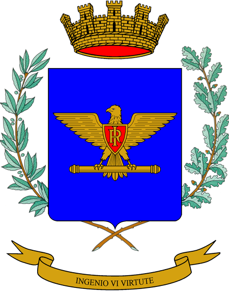 Coat of Arms of the General Staff; Italian Army.